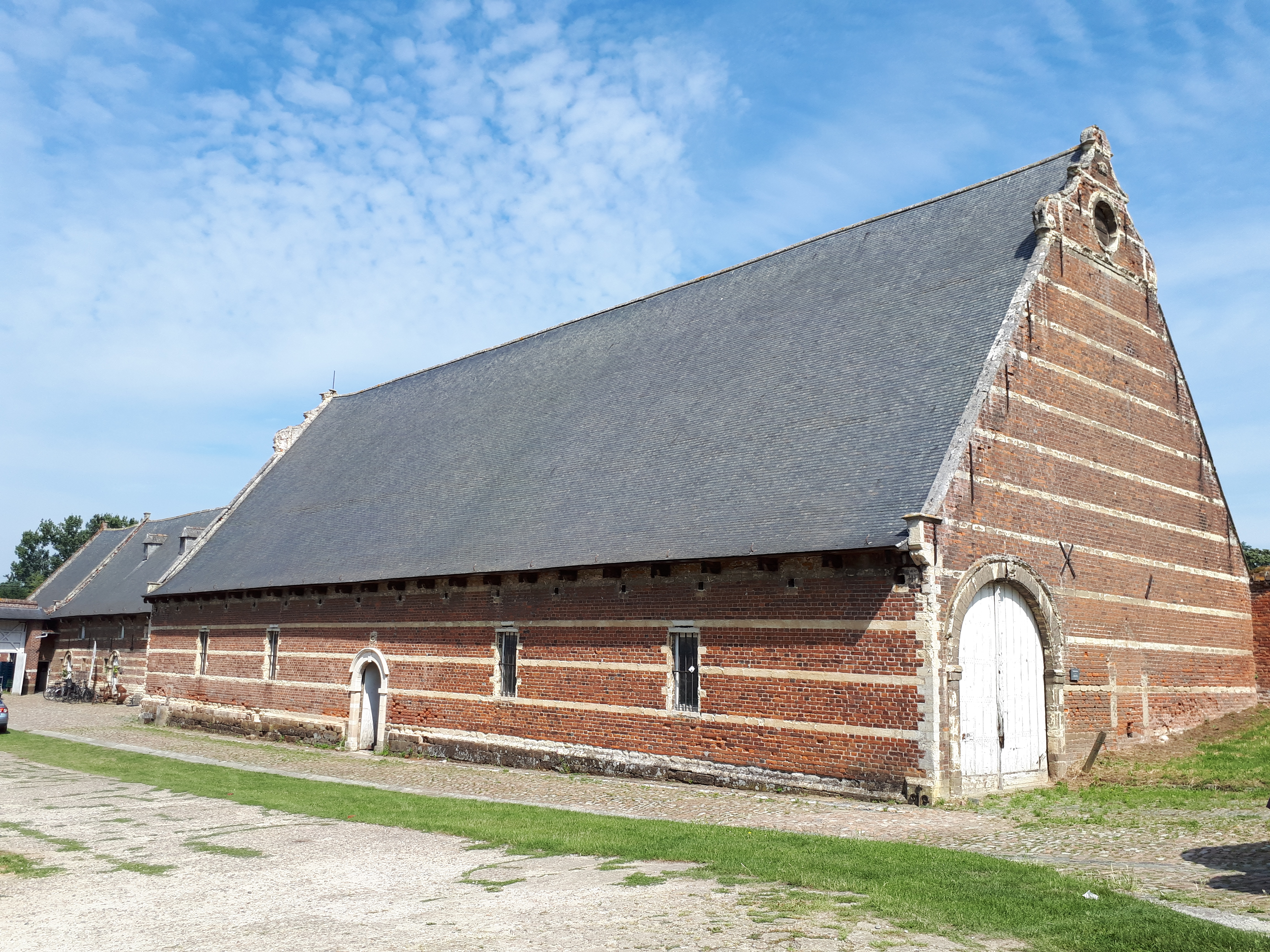 Tiendenschuur Abbey of 't Park Leuven